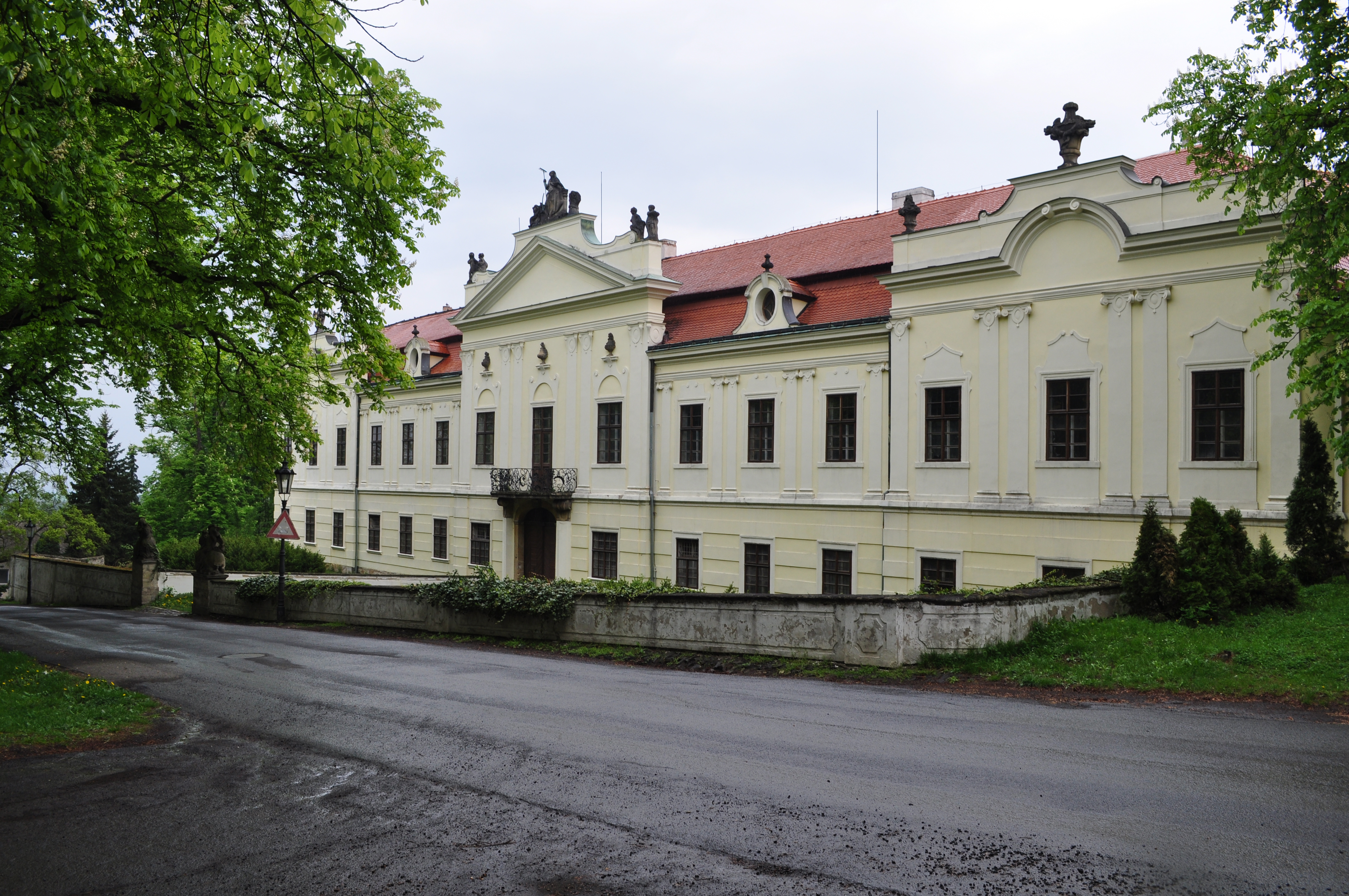 Peruc - Castle